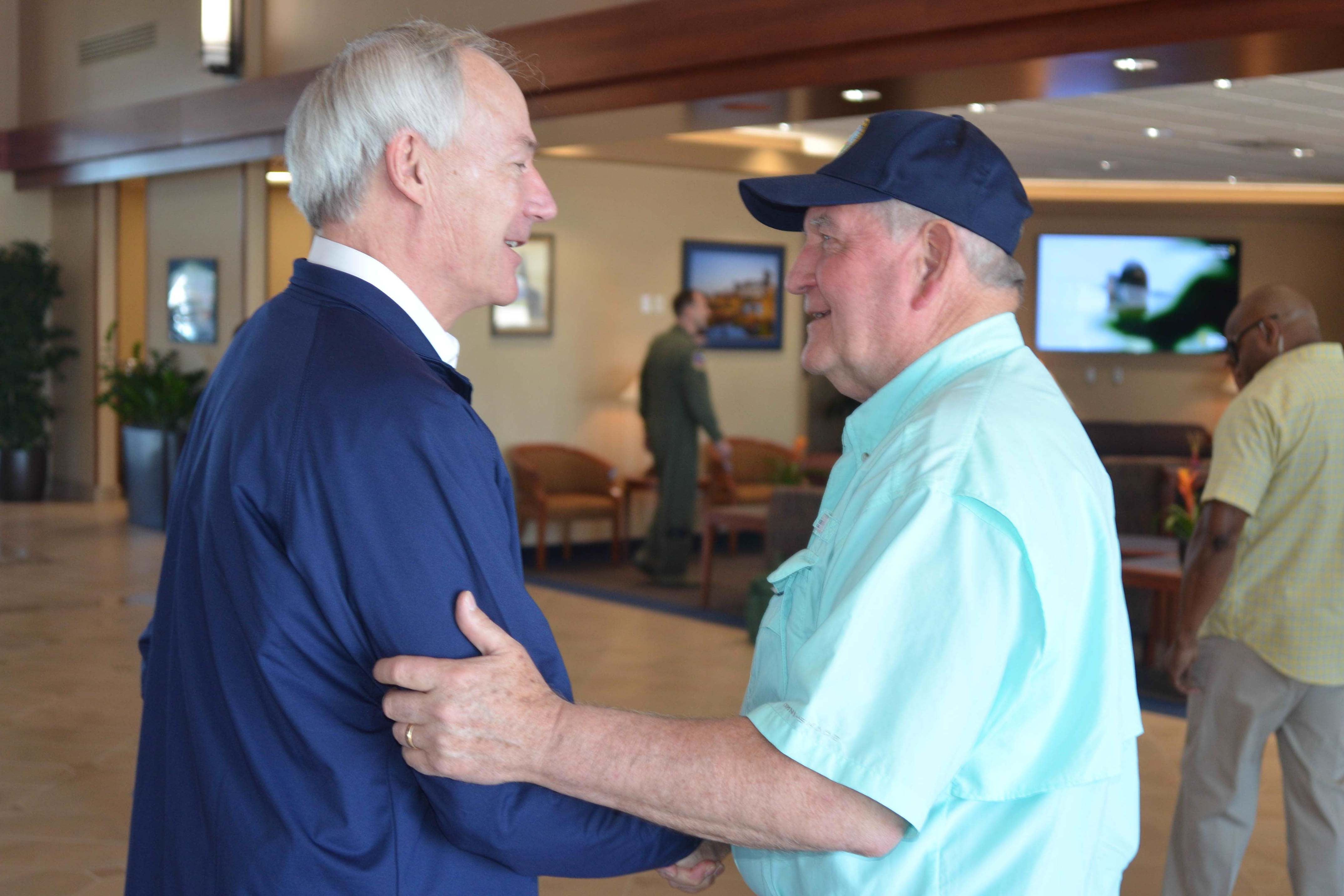 U.S. Department of Agriculture (USDA) Secretary Sonny Perdue is greeted by Arkansas Governor Asa Hutchinson before touring the flood damage in Northeast Arkansas May 7, 2017. USDA photo by Michawn Rich